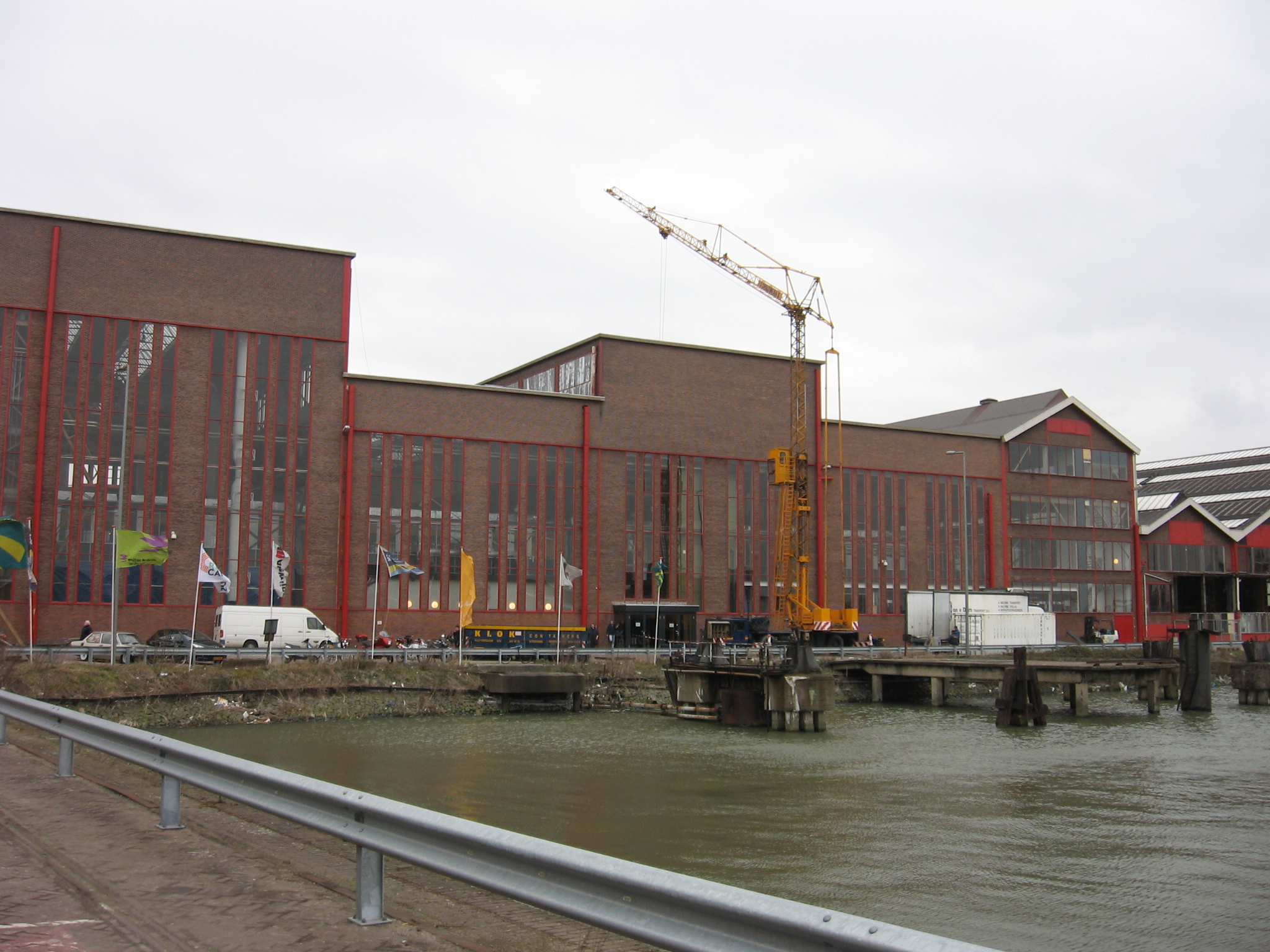 RDM Campus, Rotterdam, Heijplaat